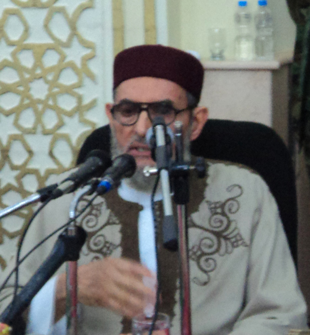 Grand Mufti of Libya : Sadiq Ghariani in a lecture in Bayda, Libya.